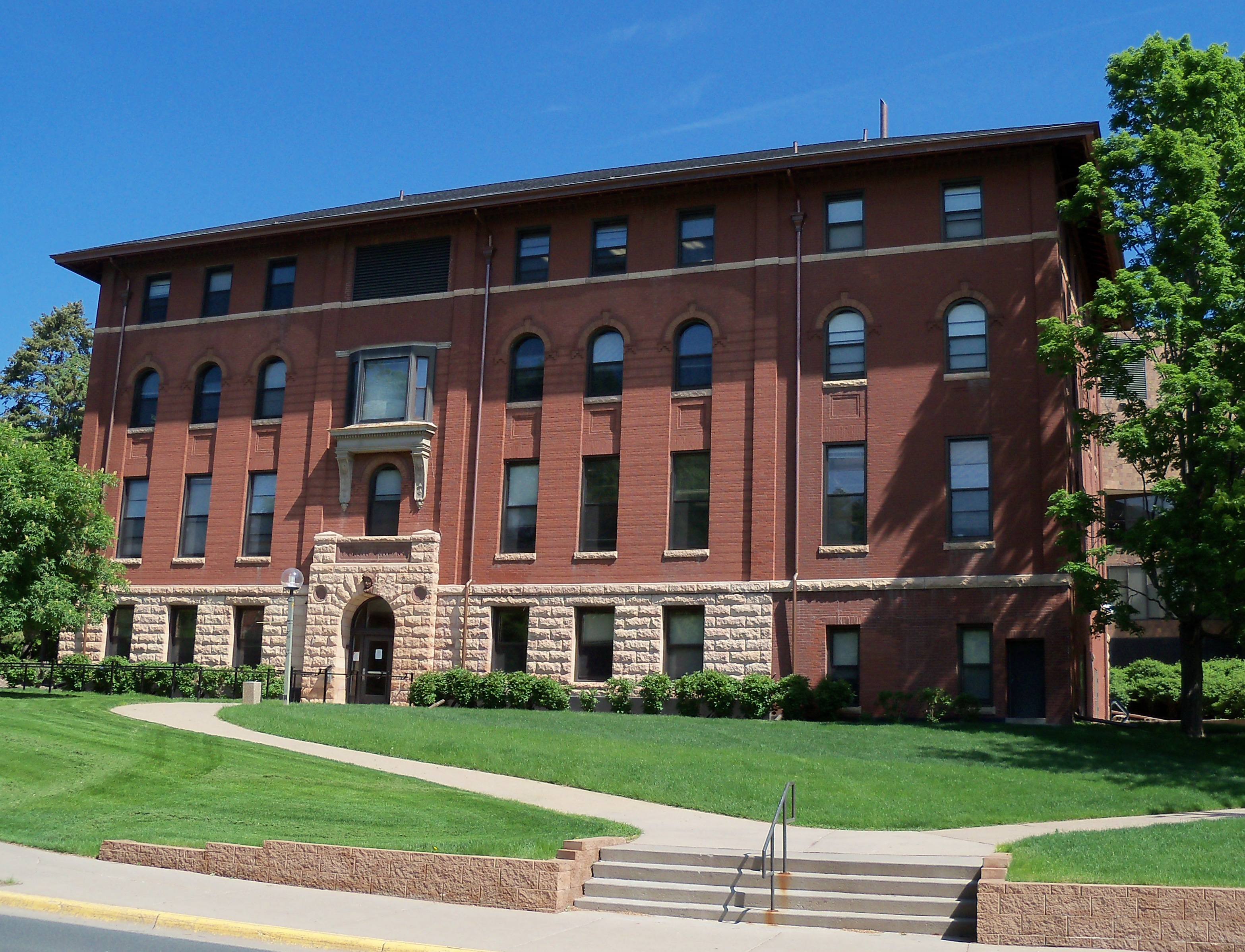 South side of McNeal Hall on the St. Paul campus of the University of Minnesota in the USA.